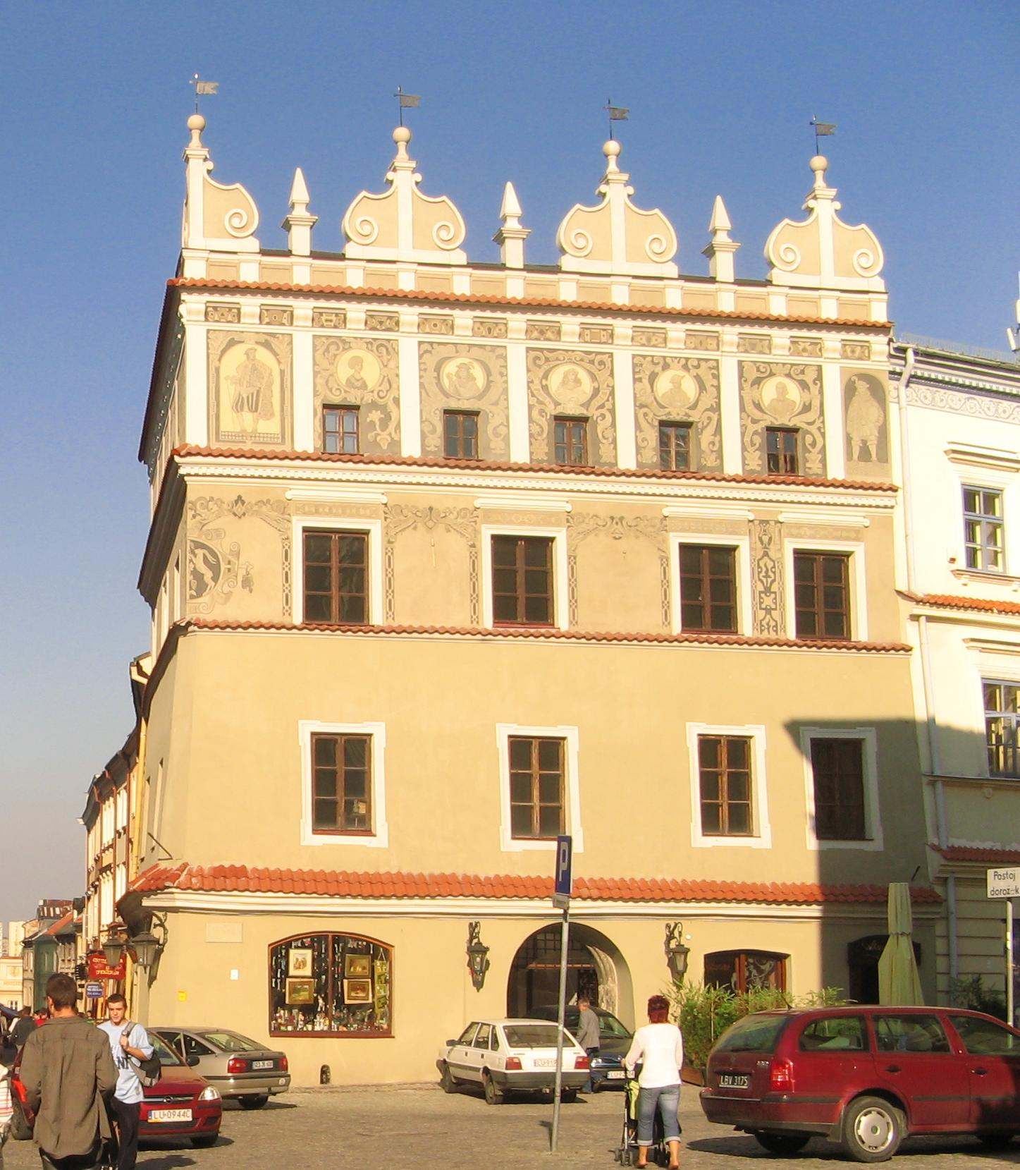 Chociszewska tenement house in Lublin Old Town